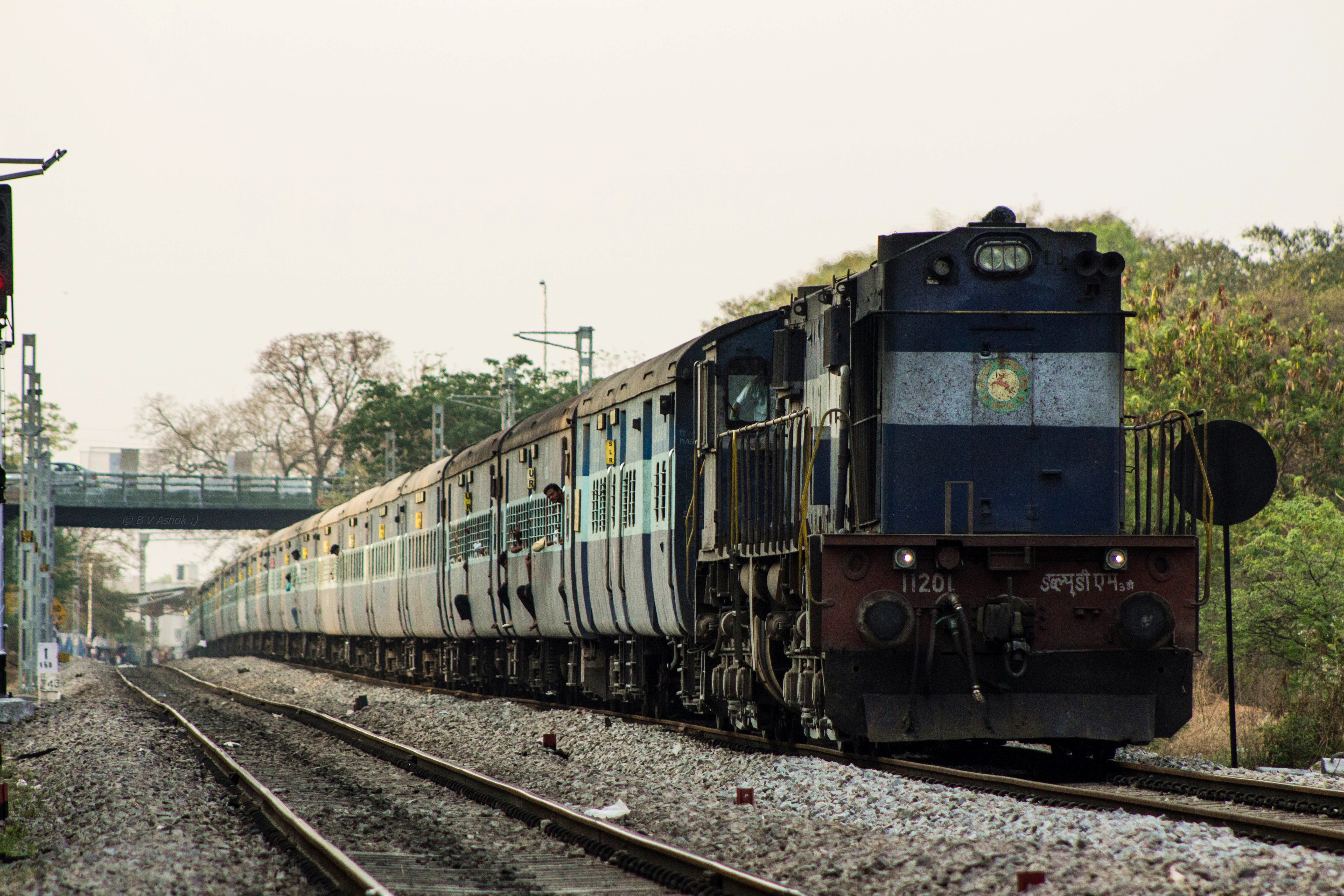 ED WDM-3D 11201 cruising out of Alwal with 16734 Okha - Rameshwaram Express...